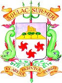 Coat of arms of the Soulac-sur-mer city - "Ex arena rediviva surgit": From the sand, It rises resurrected